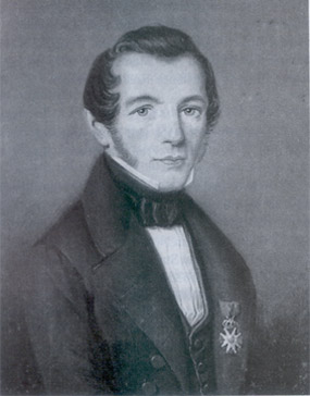 Johan Pieter Cornets de Groot van Kraaijenburg (1808-1878), Dutch politician